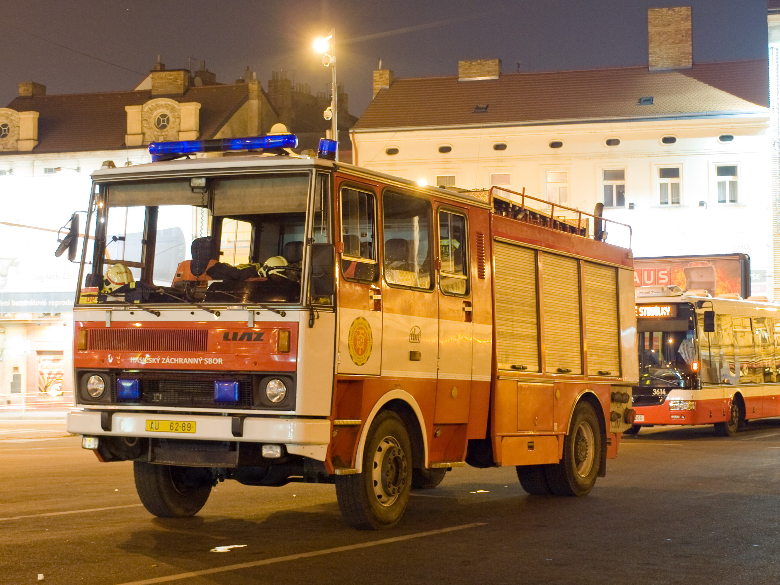 Firefighting car LIAZ, Na Knížecí, Prague